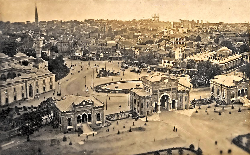 Beyazıt Square in the 1940s showing the decorative pool